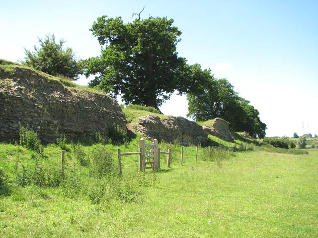 Venta Icenorum - north wall, near to Caistor st Edmund, Norfolk, Great Britain. Before the arrival of the Romans in the area, Norfolk and Suffolk were the home of the Iceni, who in AD 61 rebelled against Roman rule, led by their Queen Boudica. The revolt was suppressed and the town of Venta Icenorum was established in order to bring stability to the area. 'Venta Icenorum' means 'Market Place of the Iceni'. The outline of the streets, which are arranged in a rectangular pattern, can be seen in dry weather as brown lines in the grass, where sheep now graze a large pasture which once used to be the town centre. A massive flint and stone wall of up to 7 metres high and 4 metres thick, and an outer ditch were constructed in the late AD 200s to defend the town which by then had decreased in size to about 14 hectares. The ditch was 24 metres wide and about 5 metres deep. The site is owned and managed by the Norfolk Archaeological Trust and can best be seen from elevated positions of the A140 (Ispwich Road) or from the main London to Norwich railway line. There are two signposted walks, one leading around the Roman defences, the other following the course of the River Tas. Just to the east of the site there is a Early Saxon cemetery, and on raised ground to the north both an Iron Age burial site and Saxon cemetery have been excavated. The Arminghall Henge is located to the north-east.